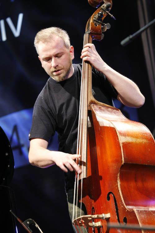 foto of Mark Tokar